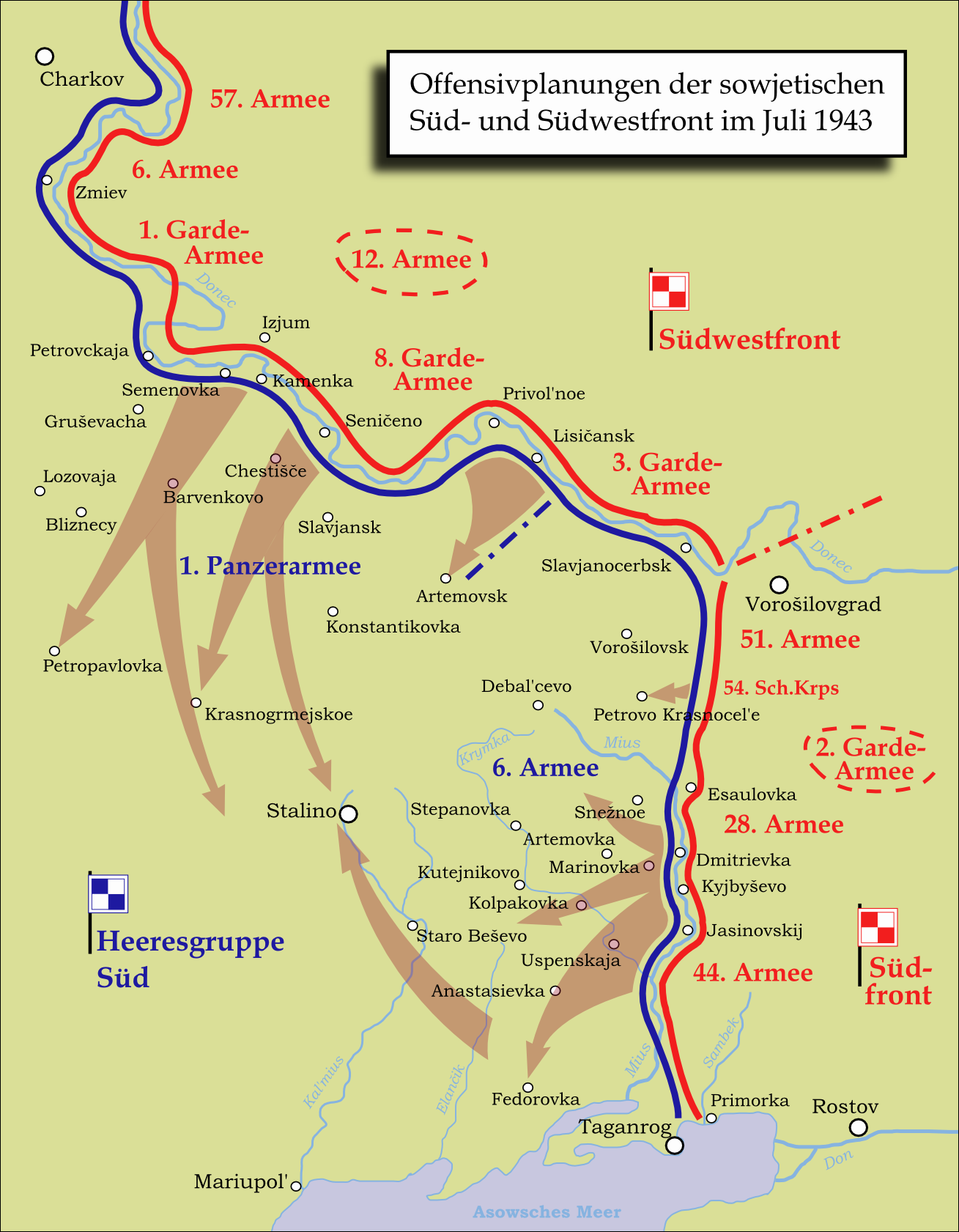 Map showing the offensive plans of the Soviet Souhtern and Southwestern Front in July 1943. The work basically follows the sketch in А.Г. Ершов: Освобождение Донбасса, Москва 1973, p.103